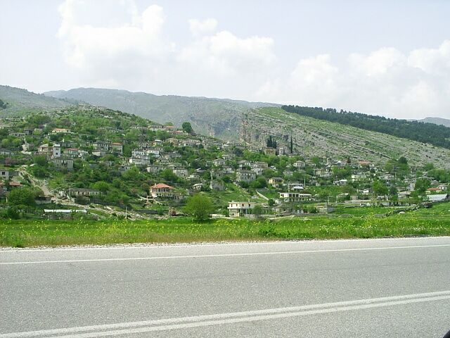 The village of Goranxia in Albania